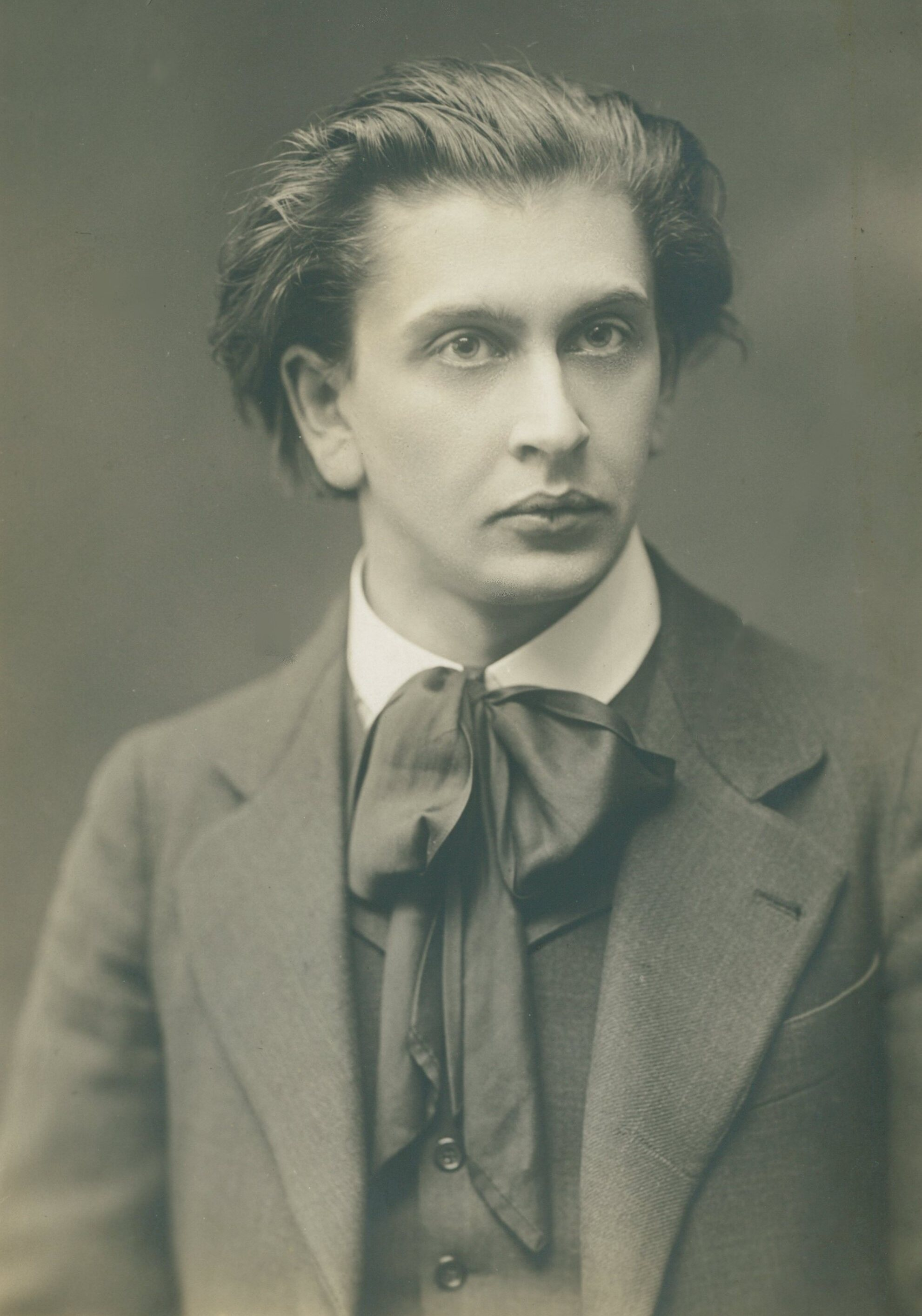 Portrait of Juliusz Kaden-Bandrowski (1885–1944), a Polish journalist and novelist